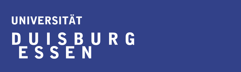 Logo of the University of Duisburg-Essen